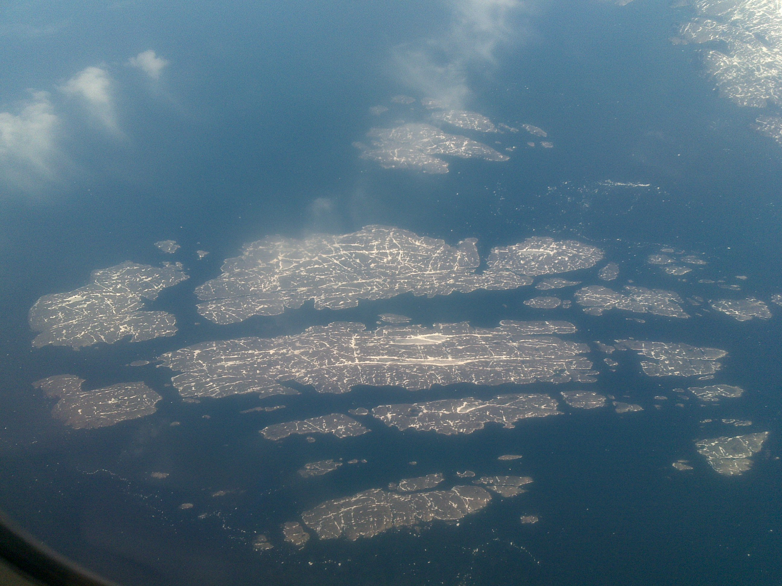 Cape Chidley Islands, off Labrador, northeastern Canada. Photo shot in july, from Icelandair route carrier Reykjavik-Minneapolis.